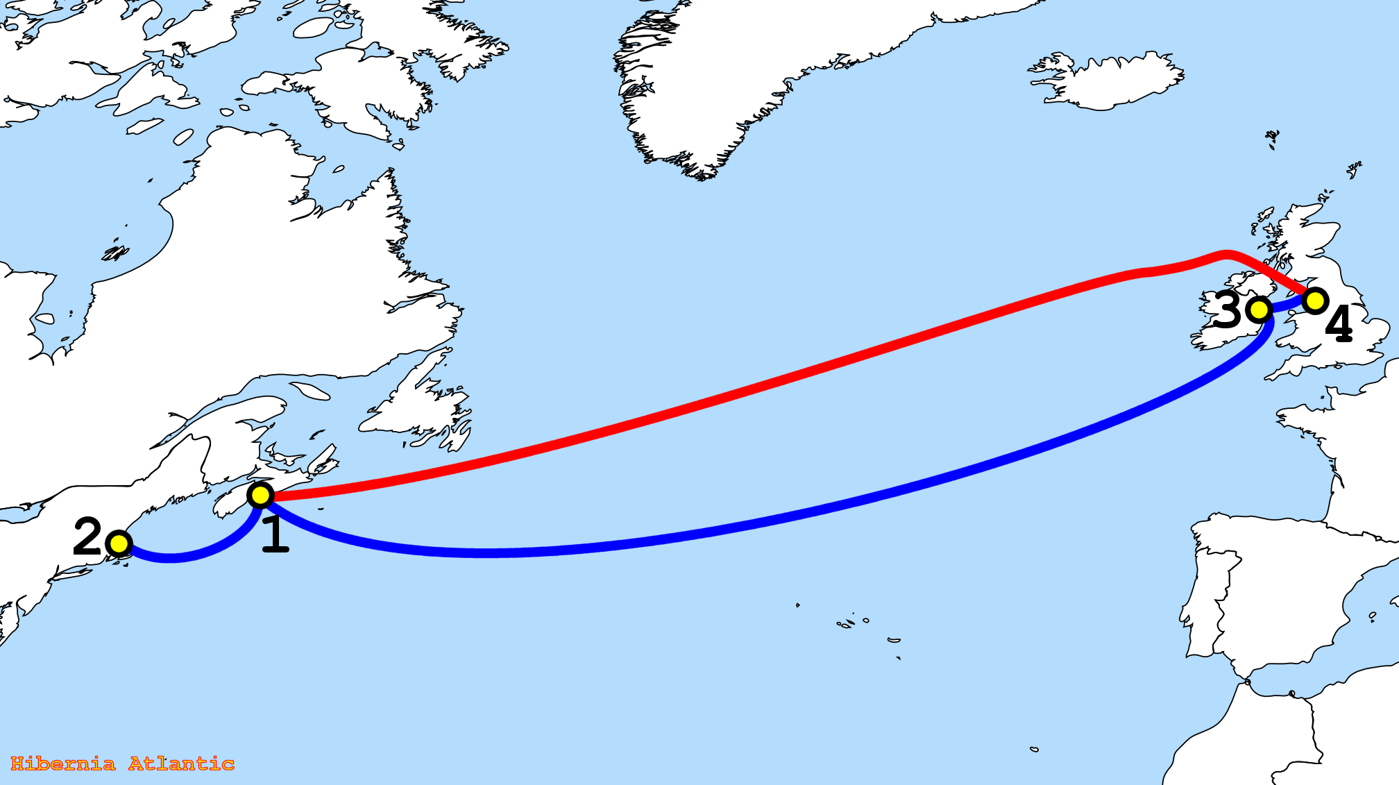 Map of the Transatlantic submarine sections of the Hibernia Atlantic Submarine Telecoms Cable. For more information regarding numbered Landing points, see the main article.